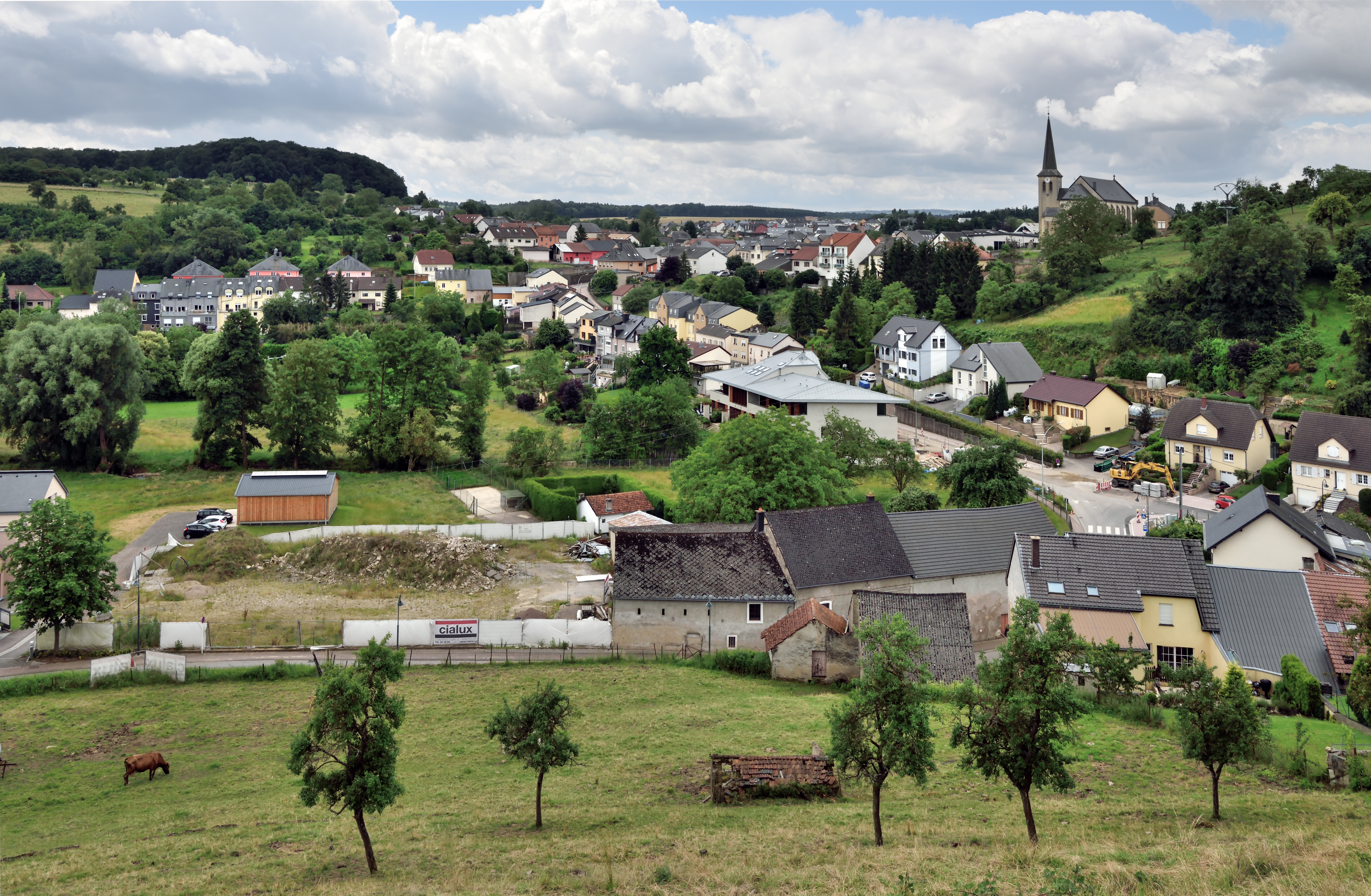 Canach, Luxembourg, as seen from the NE.